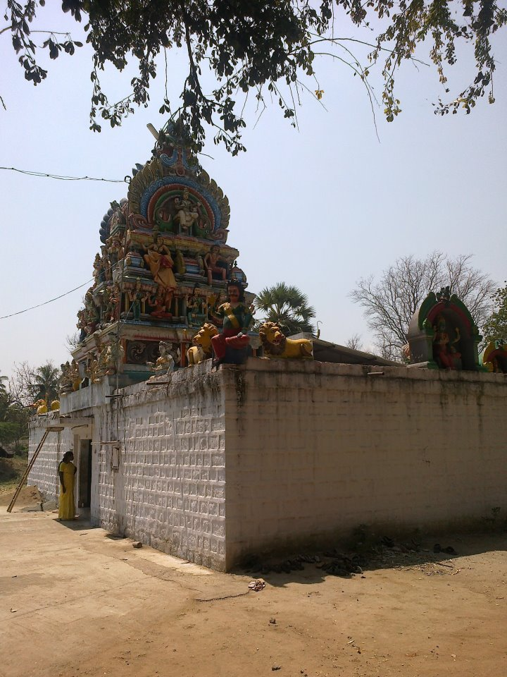 The Outer view of the Pachai Amman Temple.